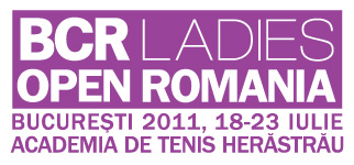 Official contact logo for the BCR Open Romania 2011 international tennis tournament for women